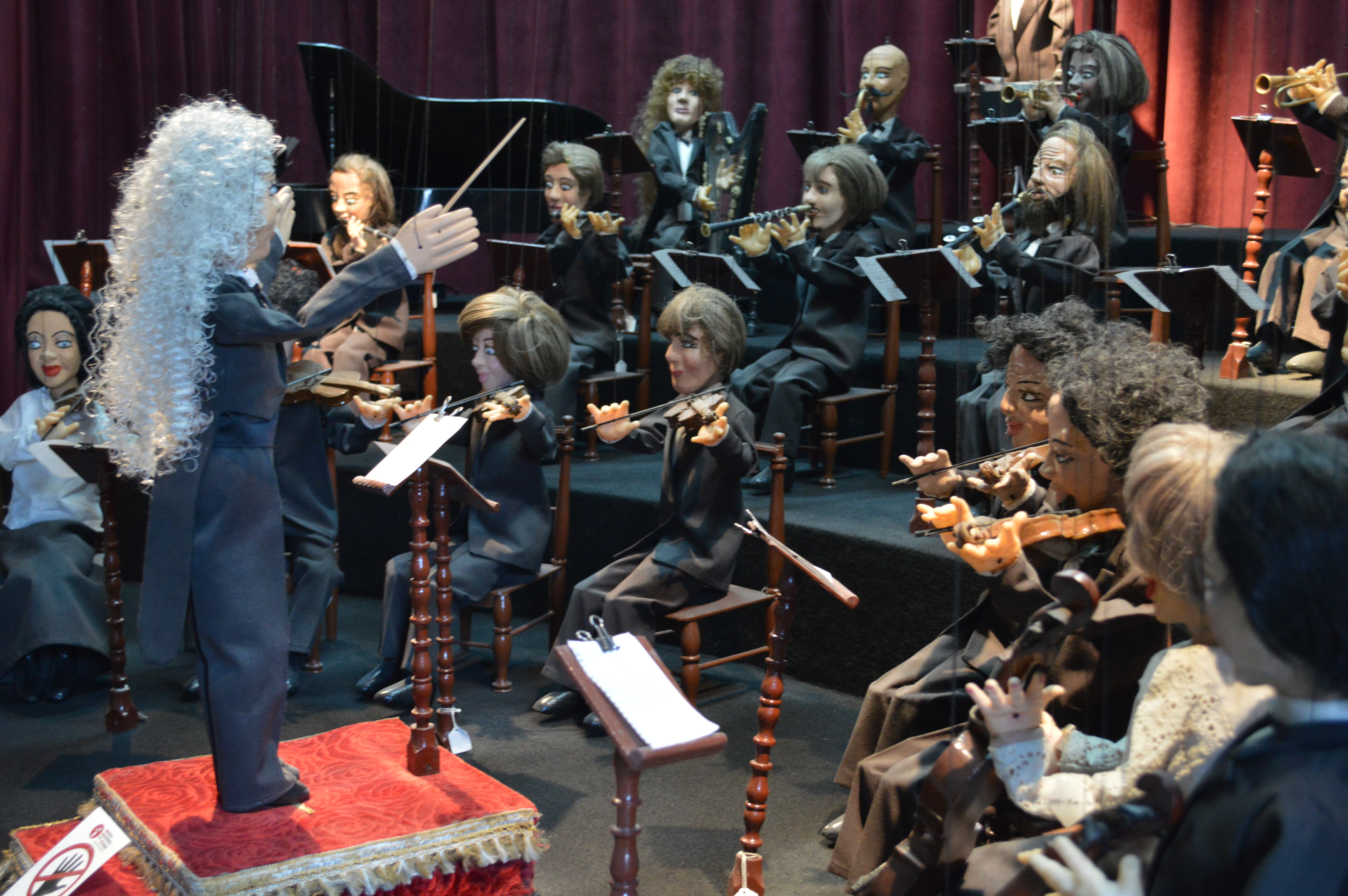 Puppet orchestra created by Maria Luis Sámano on display at the National Puppet Museum in Huamantla, Tlaxcala, Mexico